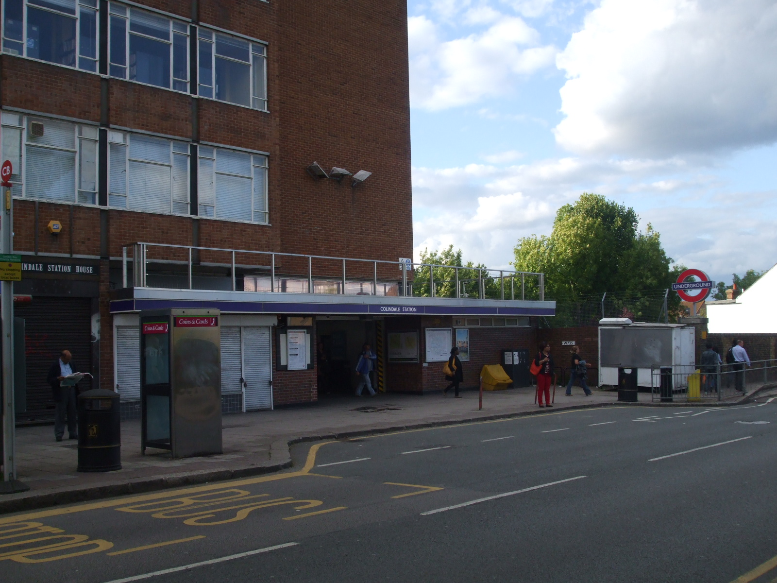 Colindale tube station